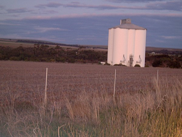 View of Nantawarra silos, South Australia. Original photography by User:Donama, June 2006